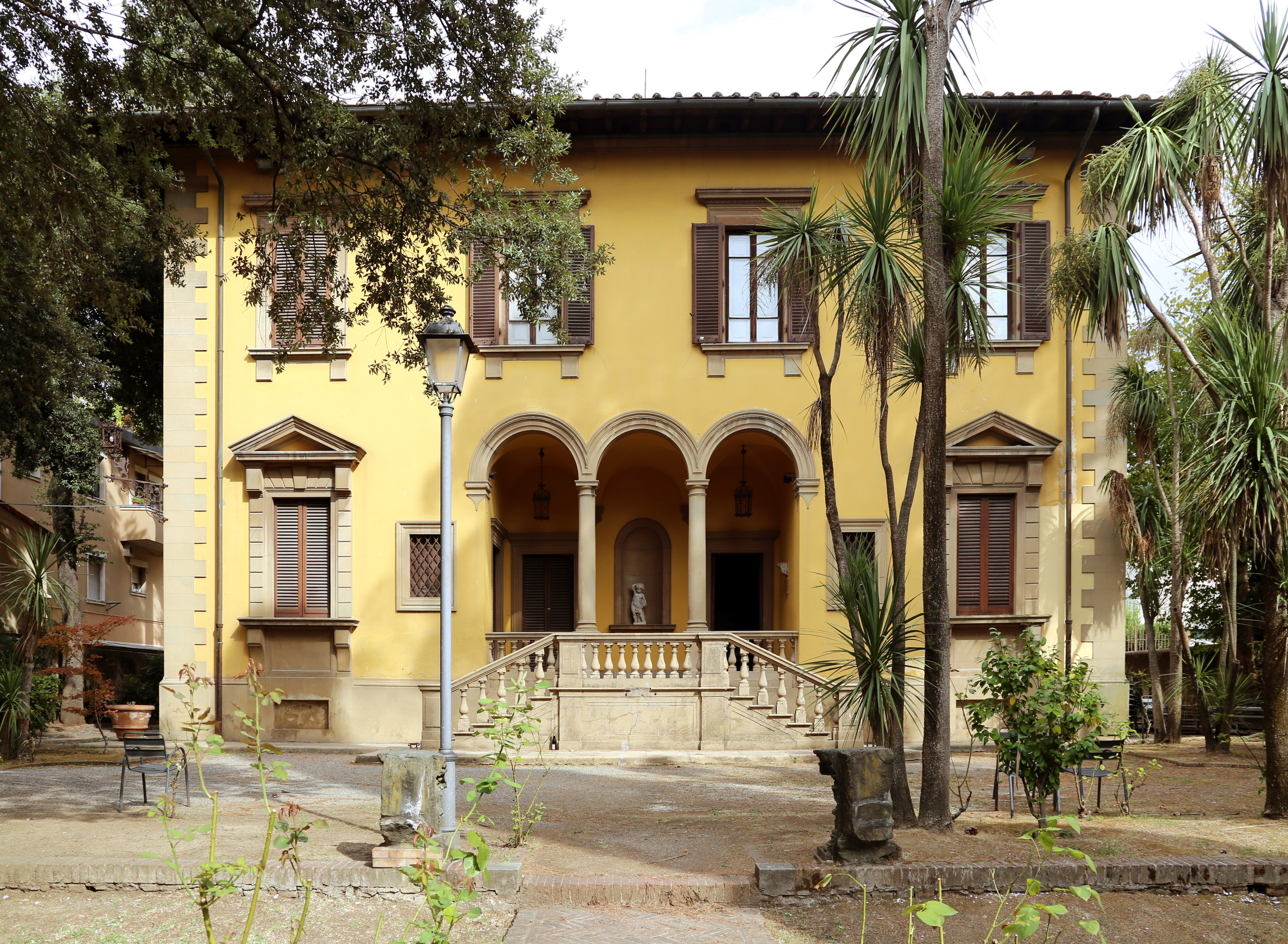 Buildings in Pontedera